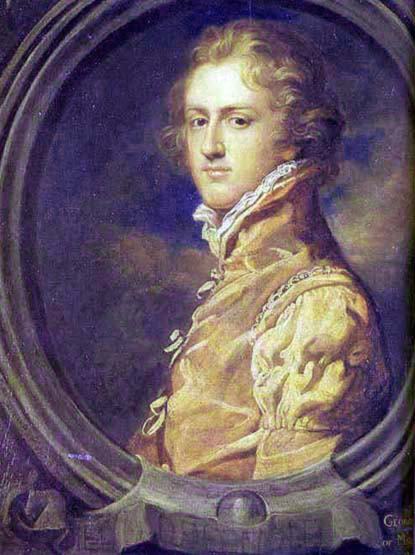 Portrait of George Spencer-Churchill, 5th Duke of Marlborough (1766-1840) when Marquis of Blandford